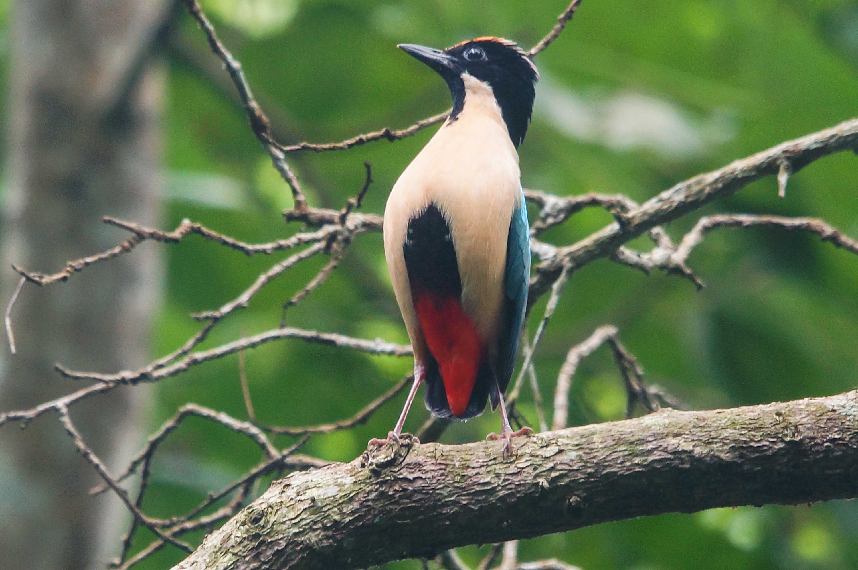 a endemic bird of Bima NTB, Sumbawa, Lesser Sundas